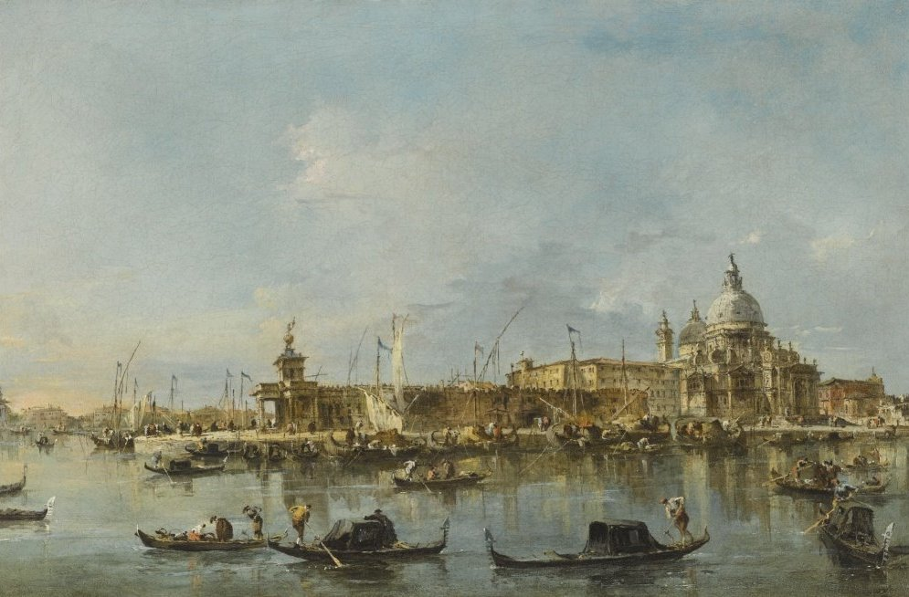 pairing allowed for a continuous panorama, with the Palladian church of San Giorgio Maggiore framing the view at the left, and Baldassare Longhena's baroque masterpiece balancing it on the right flank.